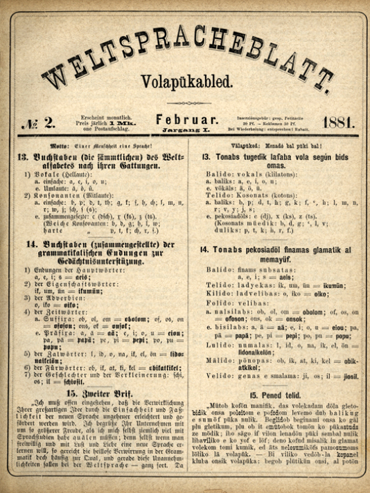 Weltspracheblatt - Volapükabled. Monthly peridiocal published by Johann Martin Schleyer in Überlingen am Bodensee. Volume 1, n°2.